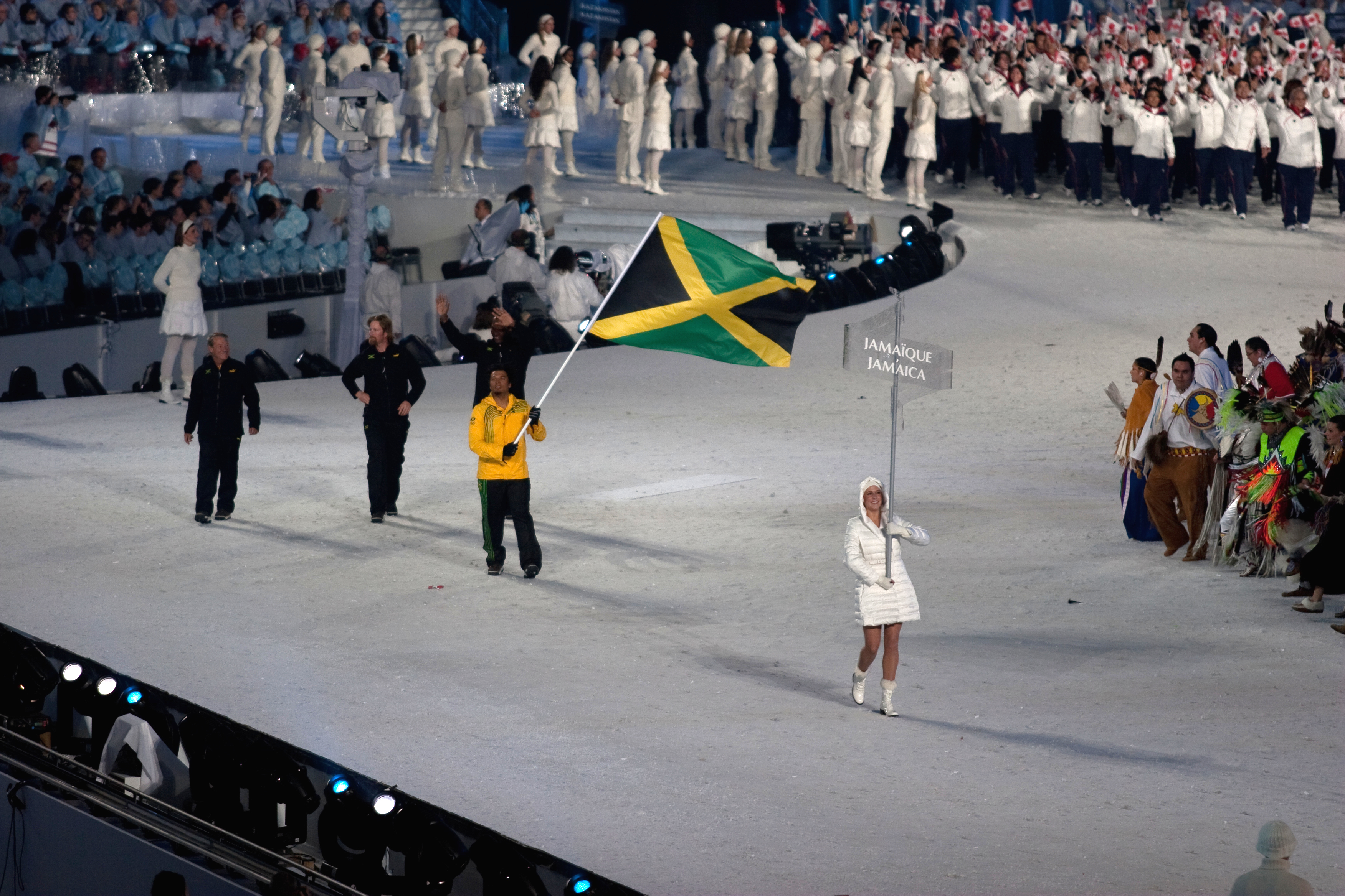 The athletes from Jamaica entering the stadium at the opening ceremonies of the 2010 Winter Olympics